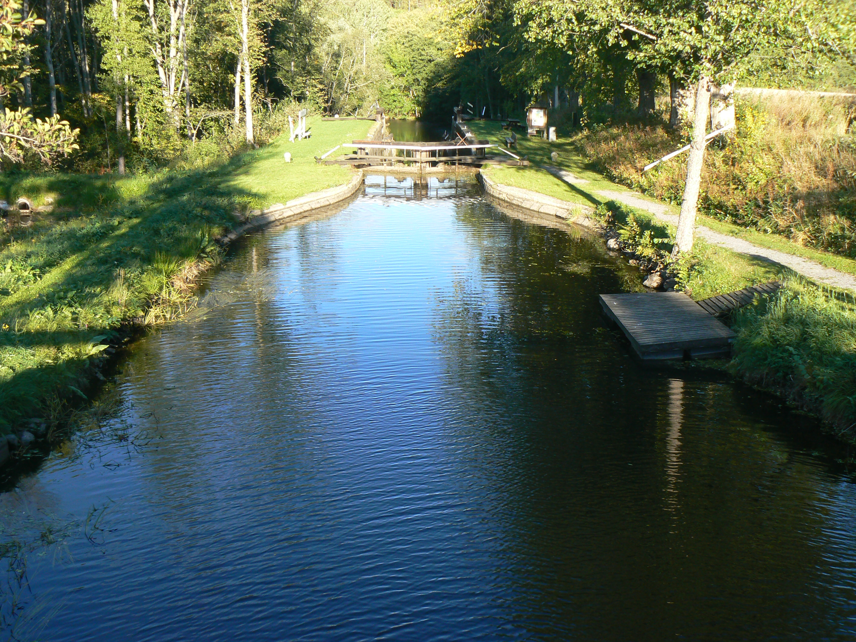 Kinda Canal, Sweden, at Hovetorp.